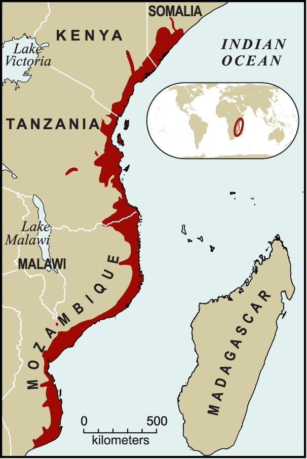 Global 200 region of Eastern Africa Coastal Forests